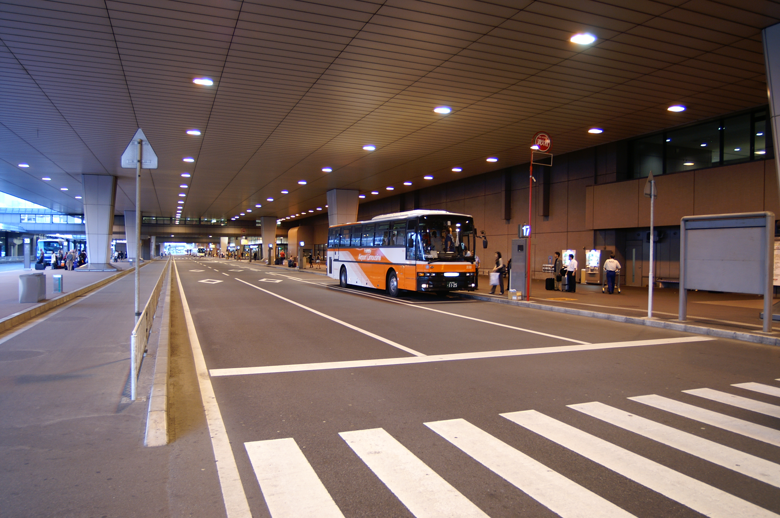 Narita International Airport - Terminal 2 passenger drop-off